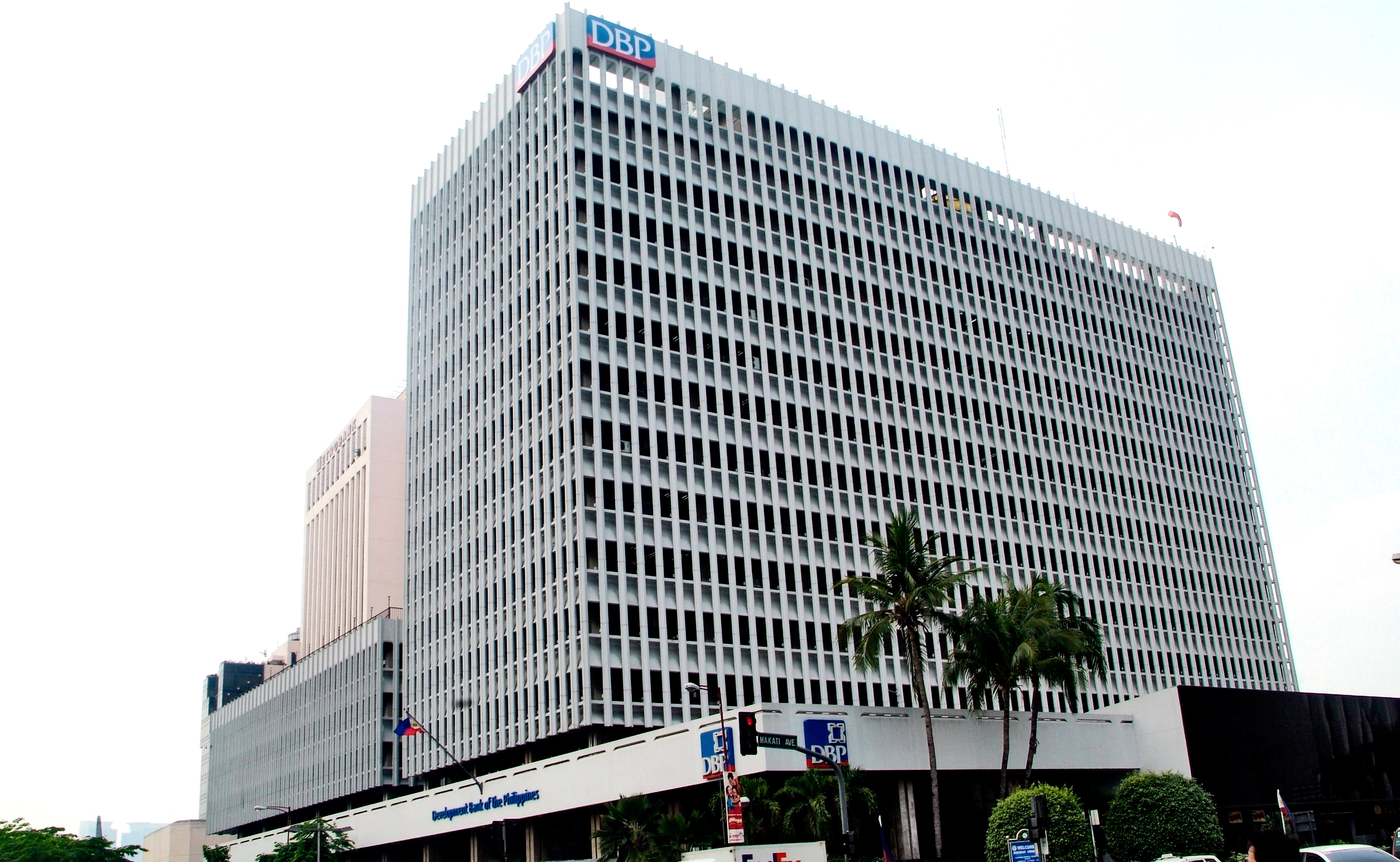 DBP Head Office in Makati City